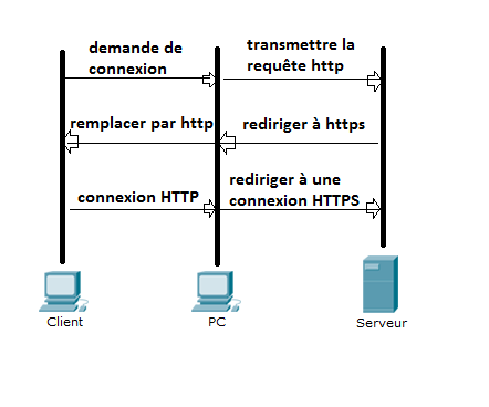 Ssl-ataque